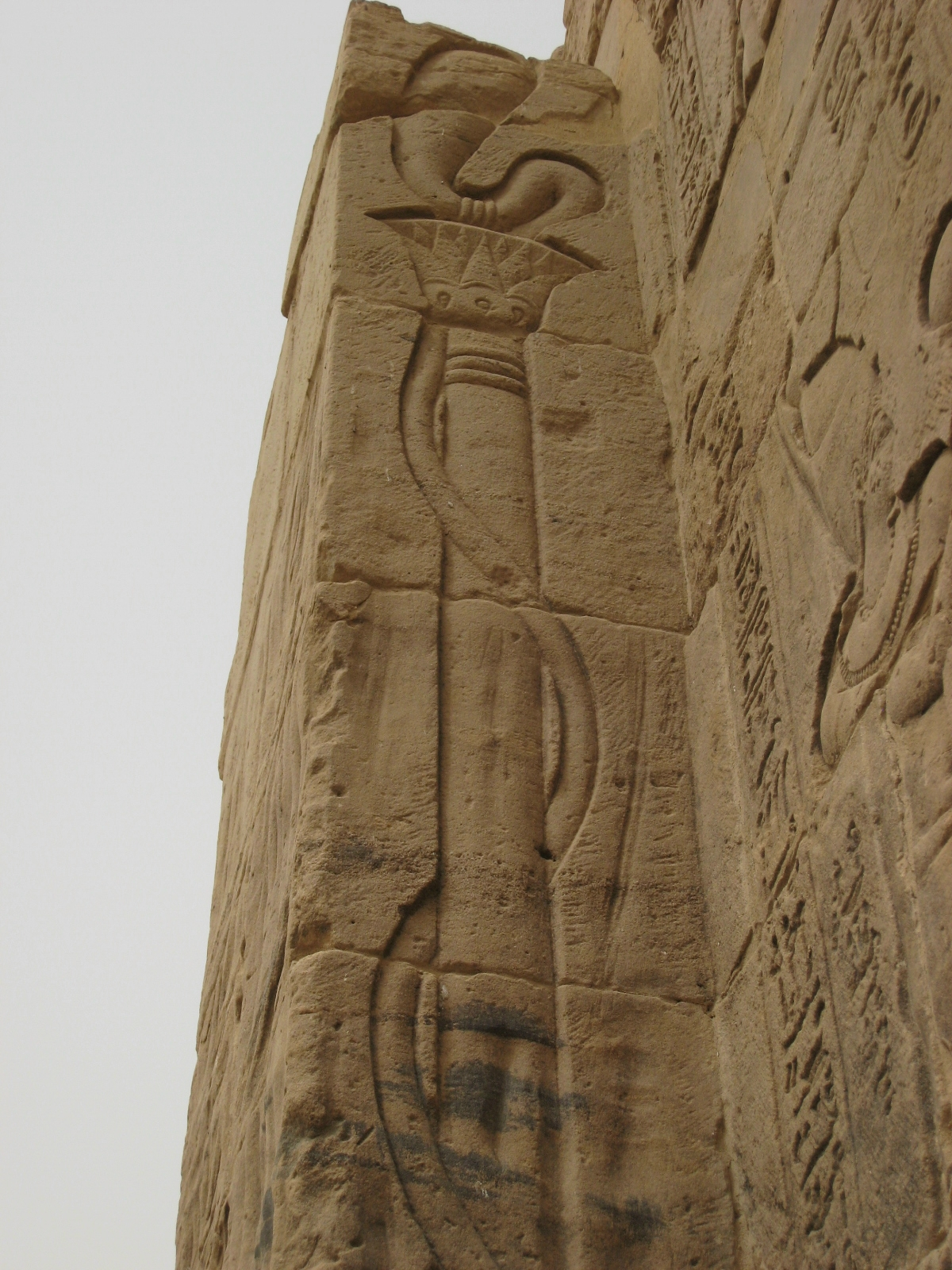 another snake and papyrus jamb